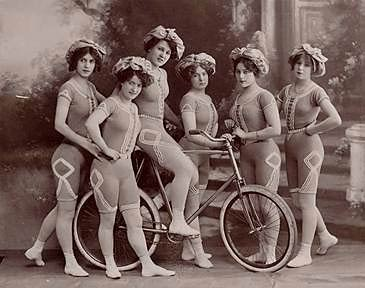 Artistic cycling team associated with indoor cycling founder, Nicholas Edward Kaufmann.